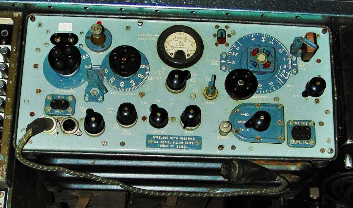 Wireless set No 62 Mk II, British military radio equipment